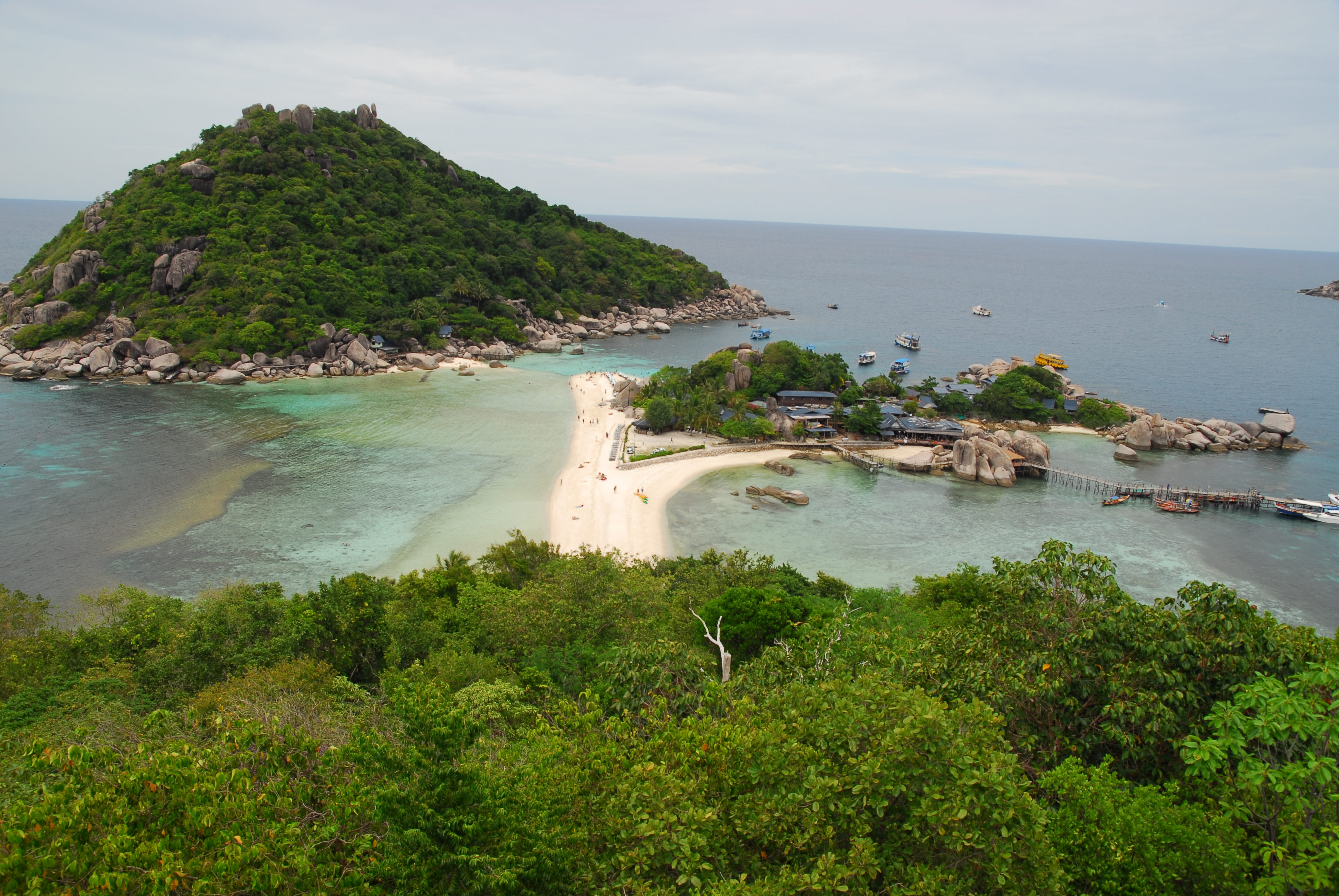 View over Nang Yuan, Thailand